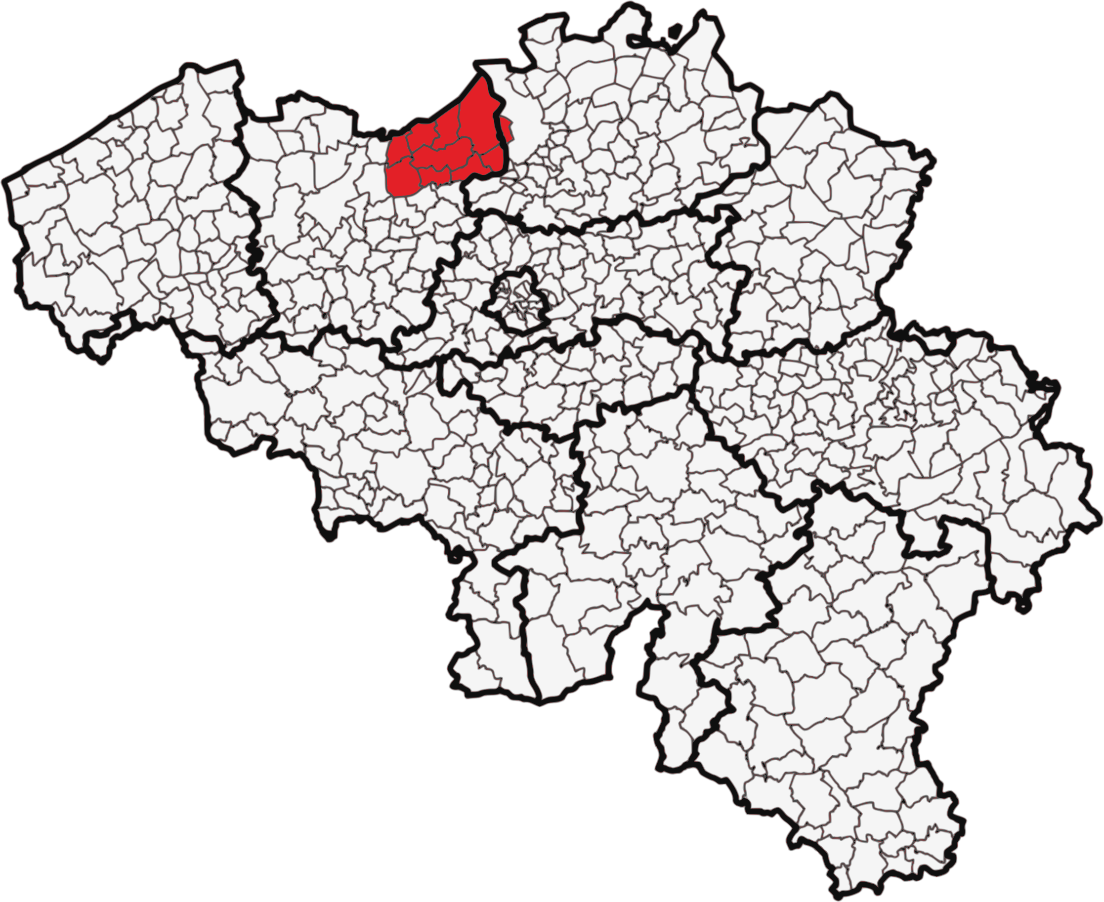 Map of Waasland